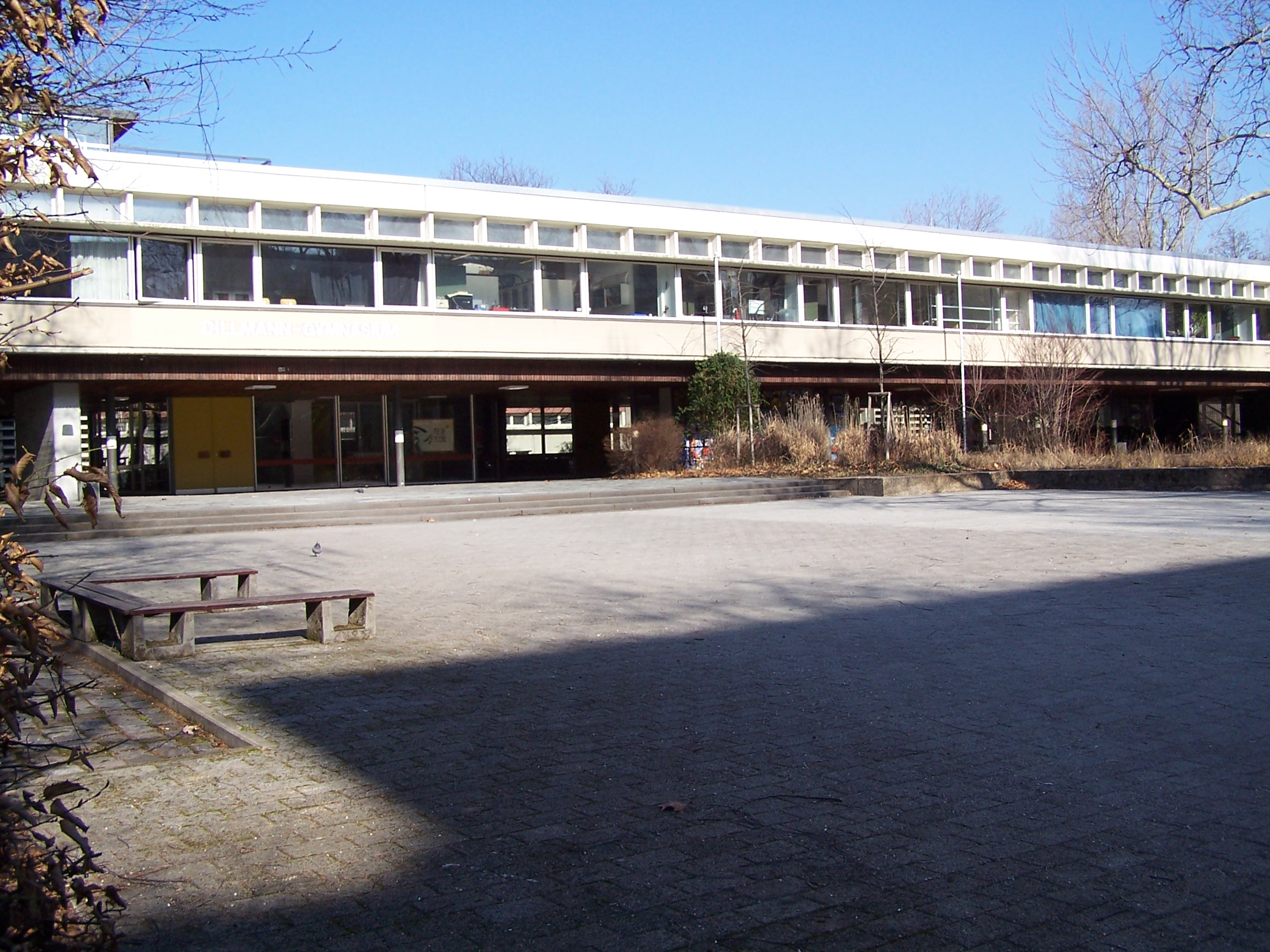 This is a photo of the Dillmann-Gymnasium in Stuttgart-West taken in February 2004 from the main entrance